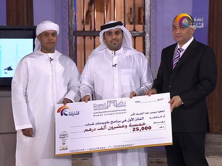 Mohamed Osman Baloola won 1st prize in Tomohat Shabab at Sharjah TV . 25,000 Dhs from Rawaad Establishment.